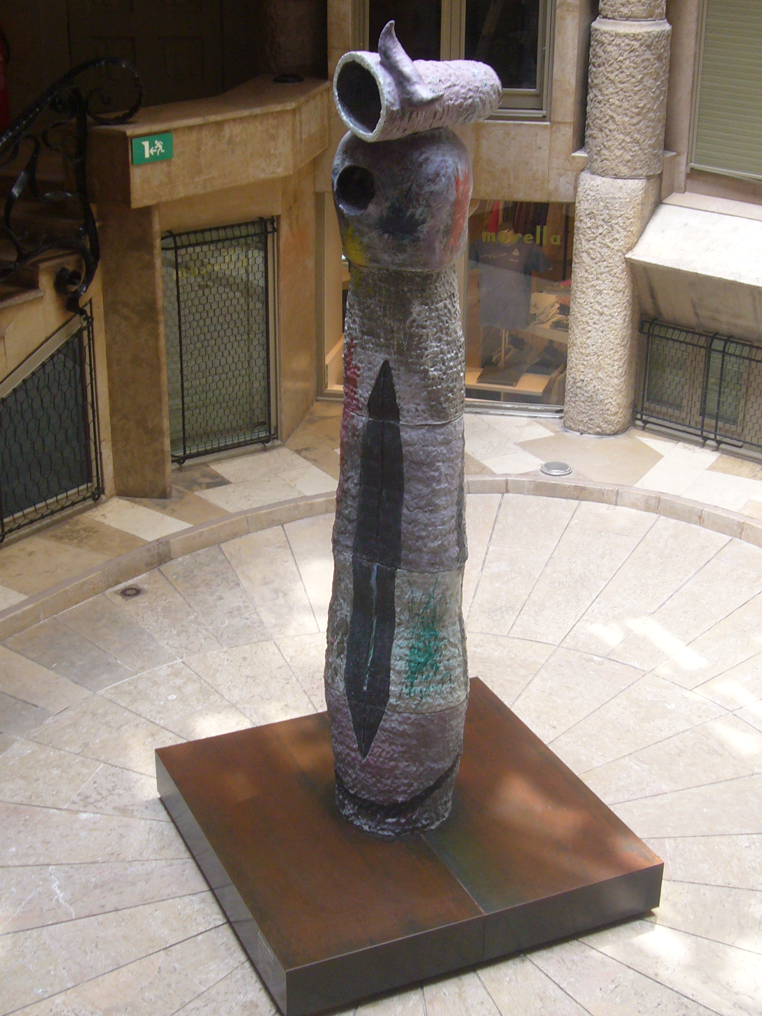 Sculpture "Femme et oiseau" (1962), by Joan Miró and Josep Llorens Artigas, at the exterior of Casa Milà, Barcelona.